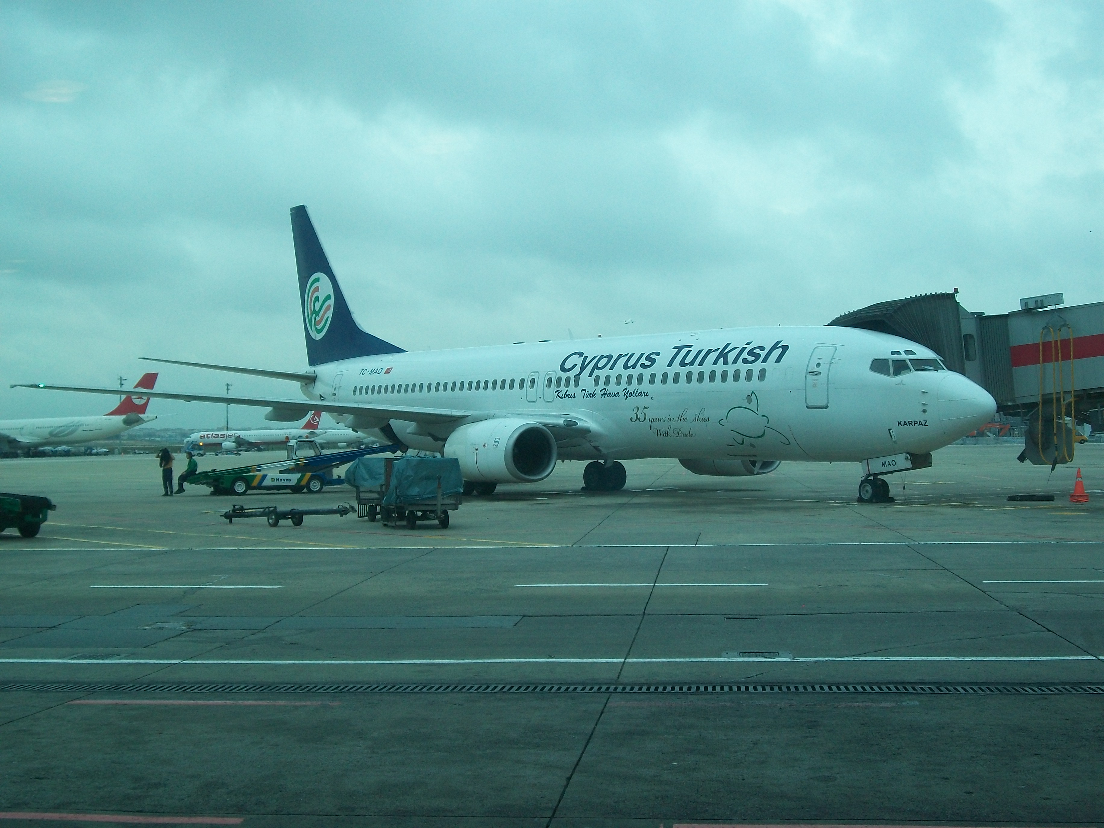 Cyprus Turkish airplane in Istanbul Ataturk Airport